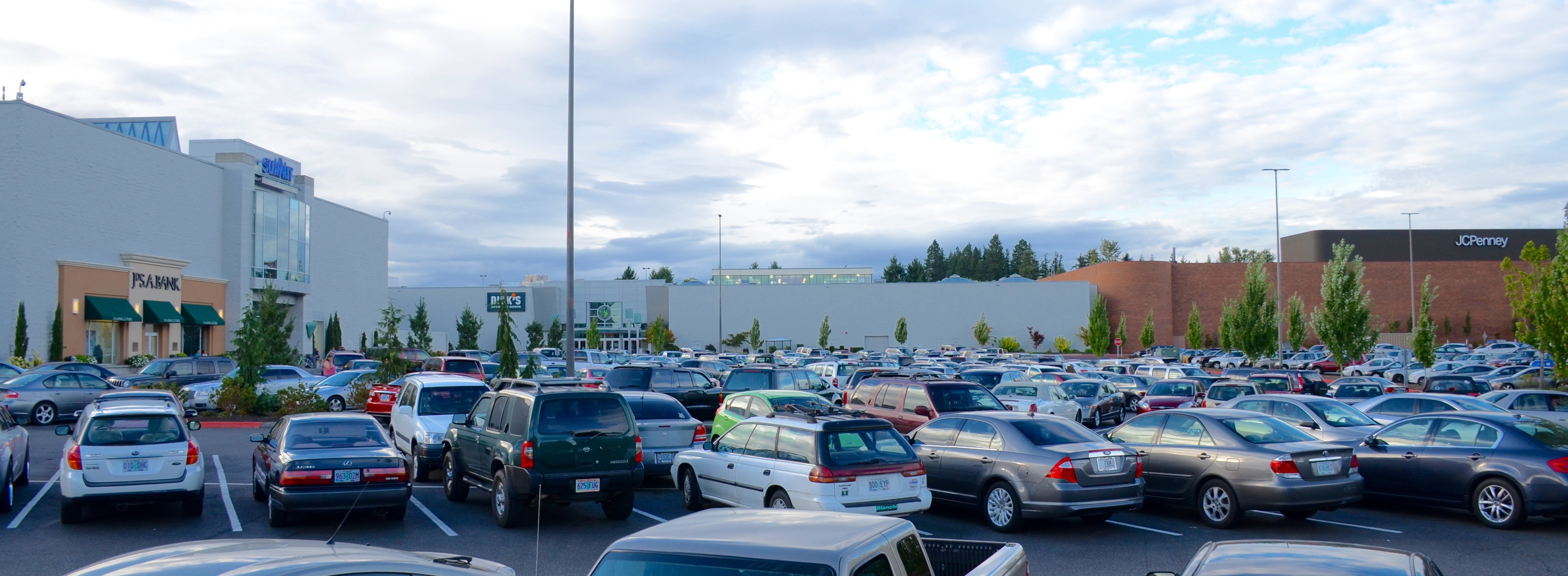 The Washington Square mall, in Tigard, Oregon (in the west-side suburbs of Portland). This is the northeast portion of the mall, viewed from the parking lot to the southeast.